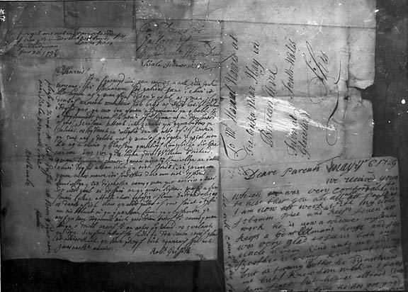 1 negative : glass, dry plate, b&w ; 12 x 16.5 cm.